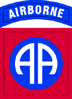 82nd Airborne Division Shoulder Sleeve Insignia